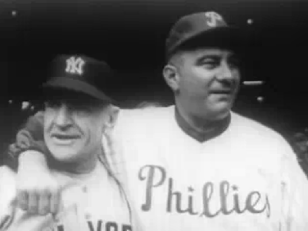 New York Yankees manager Casey Stengel with Philadelphia Phillies manager Eddie Sawyer prior to Game 1 of the 1950 World Series at Shibe Park. * Screen capture from the film located at: This movie is part of the collection: Prelinger Archives